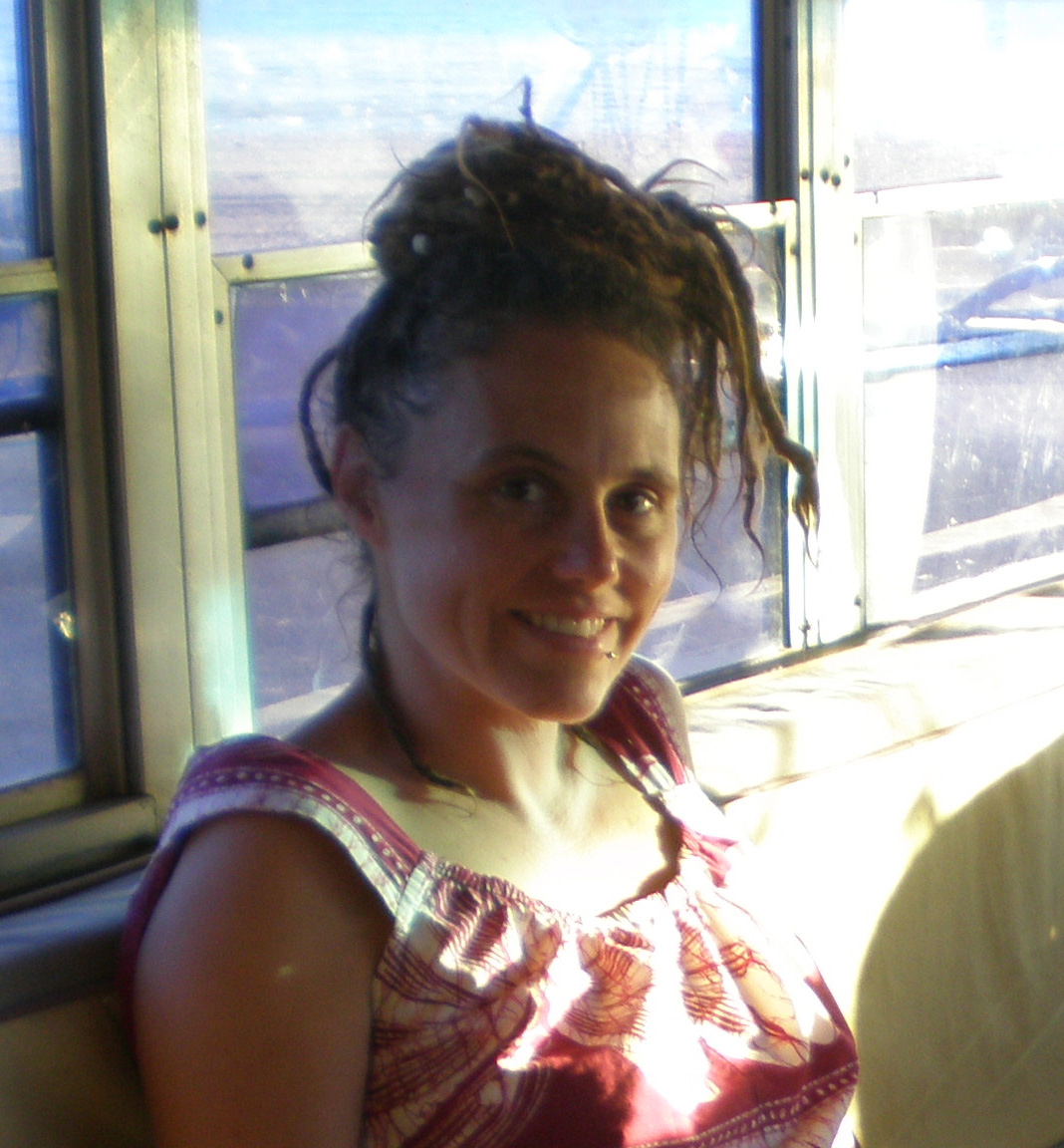 Sheila Nicholls in her bus "Arabella" at a beach close to Los Angeles after dinner